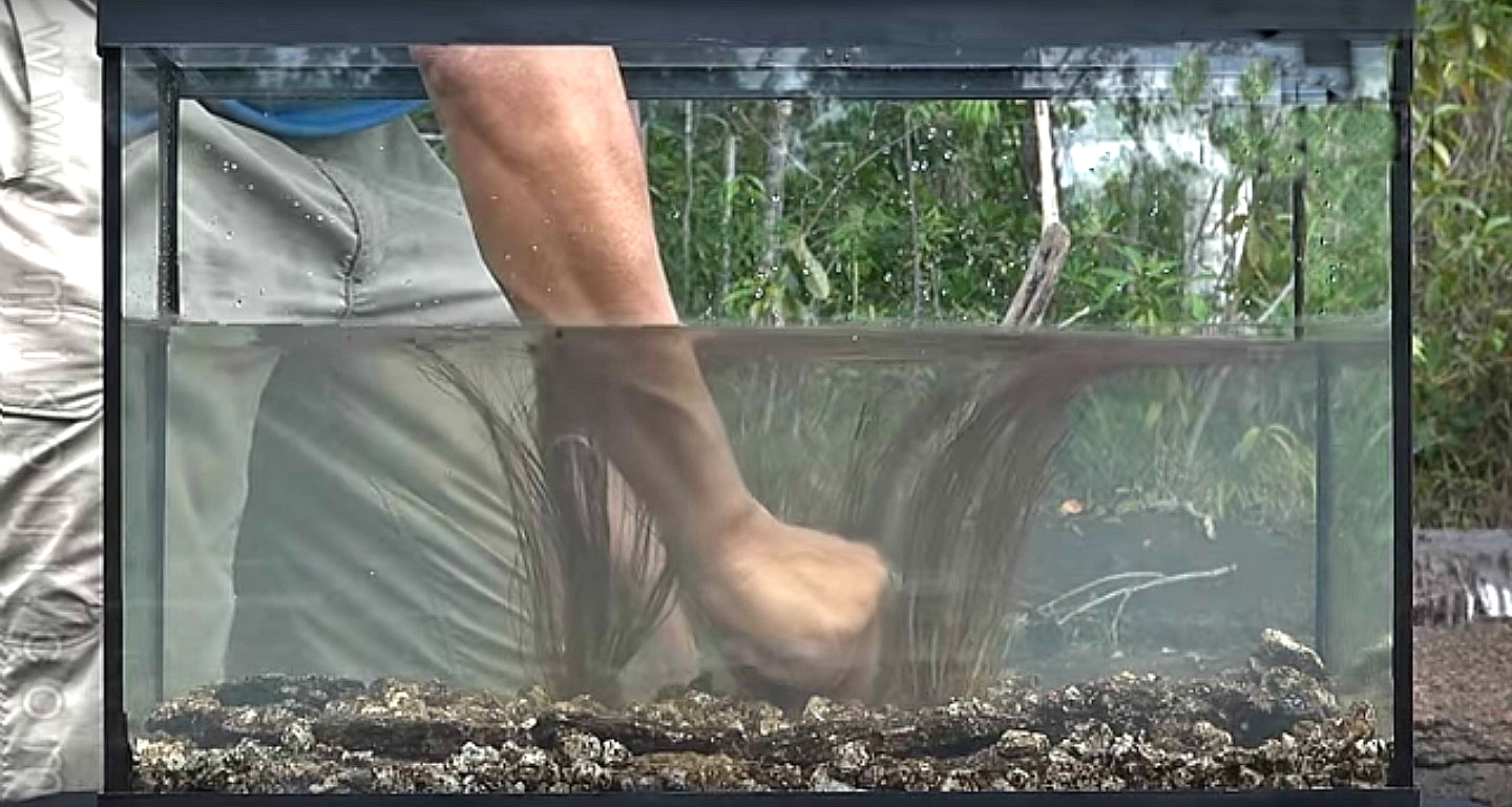 Process of making wild aquarium